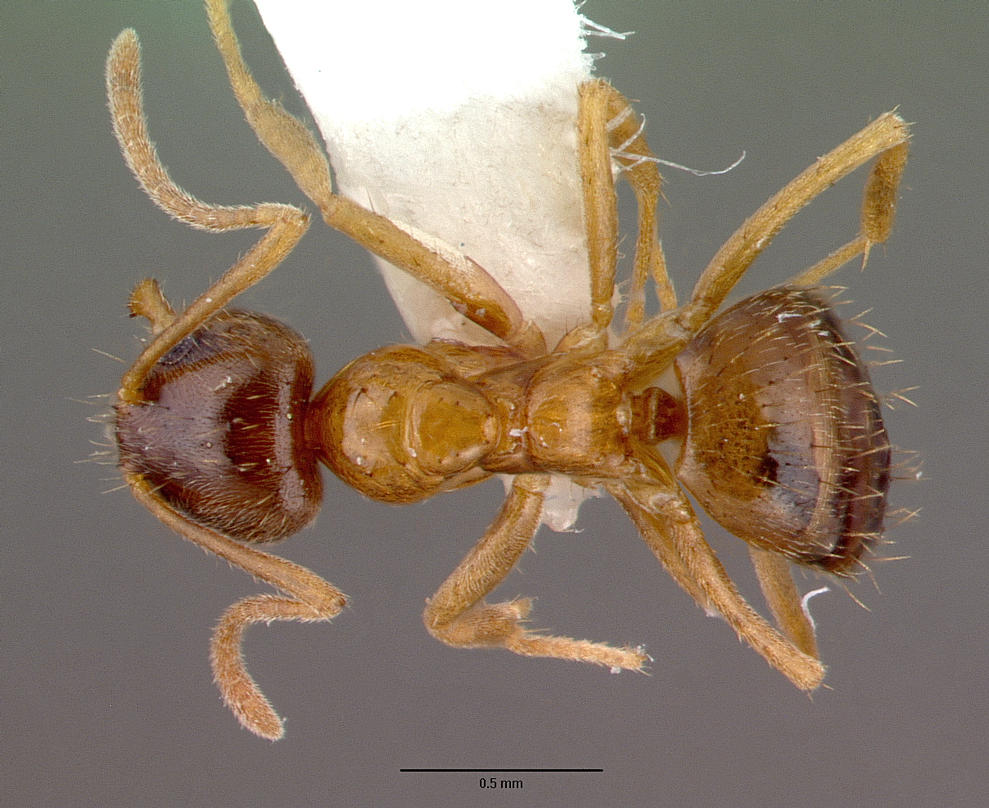 Dorsal view of ant Paratrechina flavipes specimen casent0008645.